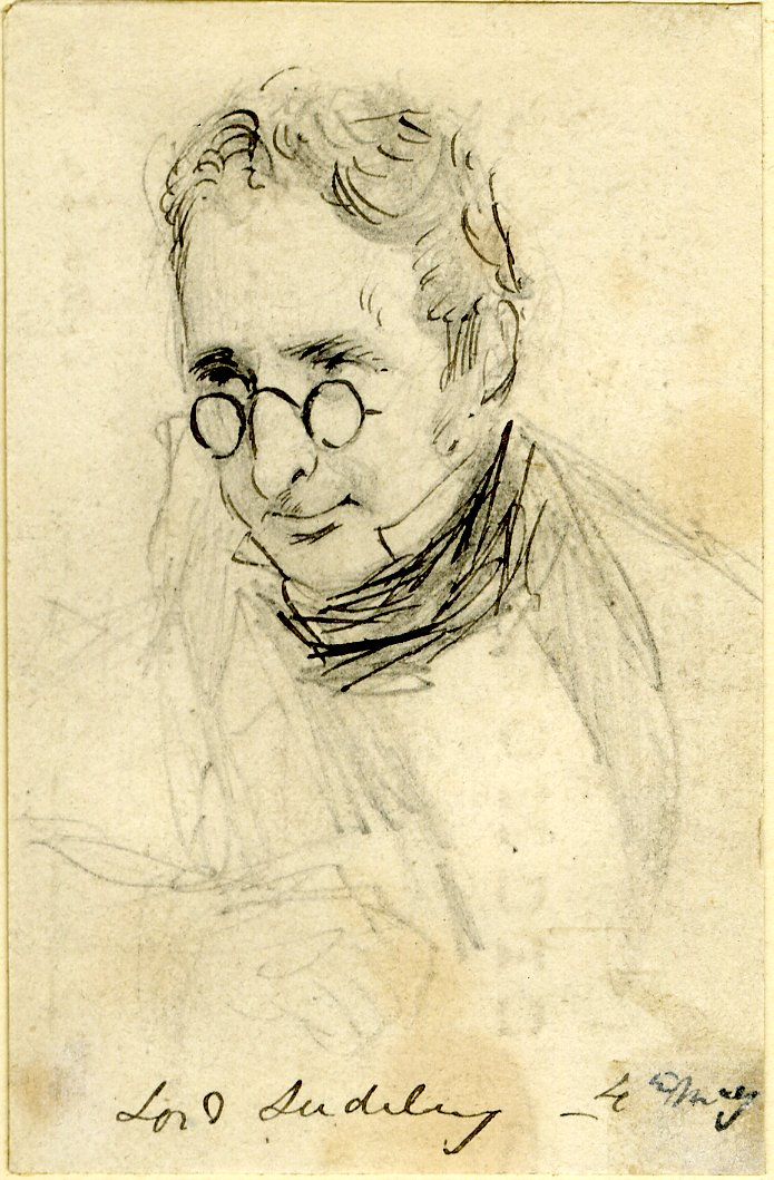 Portrait of Charles Hanbury-Tracy, 1st Baron Sudeley, by the British artist Daniel Macdonald. Pen and black ink and graphite. 89 mm x 58 mm. Courtesy of the British Museum, London.